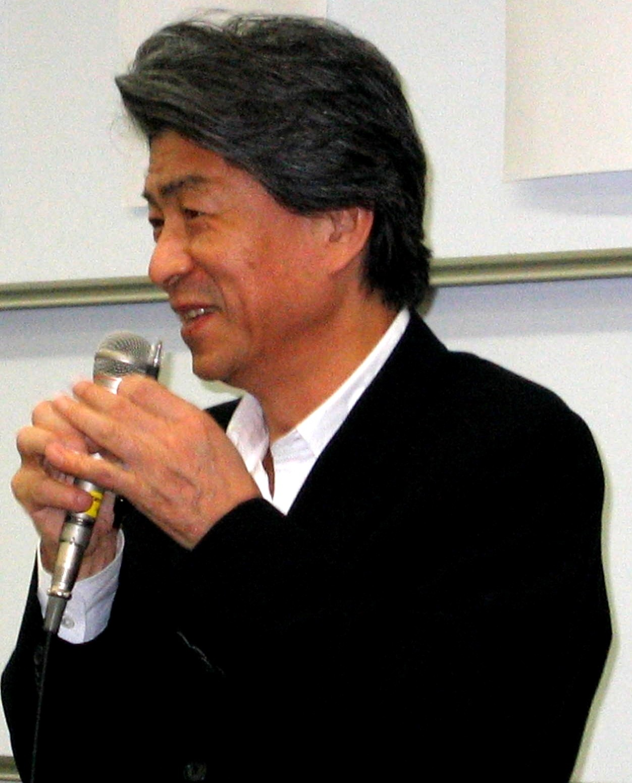 Shuntato Torigoe, Japanese Journalist. Taken on Septemper 2, 2006 at Waseda University, Tokyo